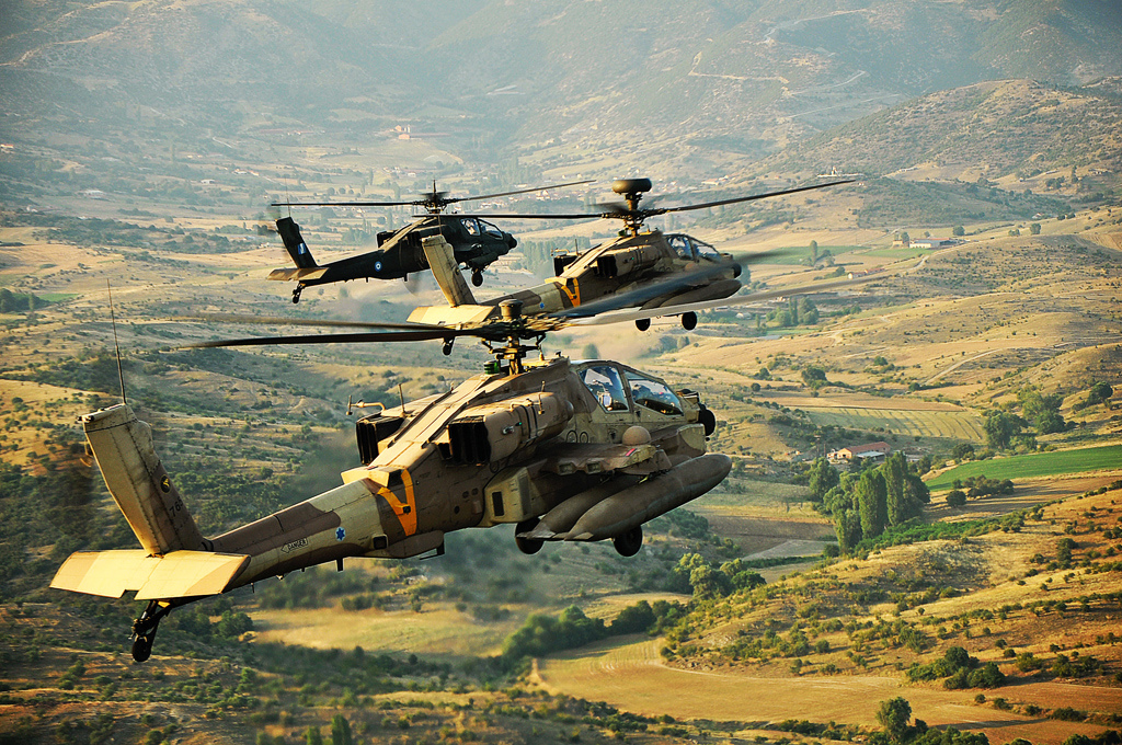 June 20, 2011 Apache helicopters of the Israeli and Hellenic Air Forces fly together in a joint aerial exercise. These types of exercises are a central aspect of the Israel-Greece military cooperation. Photo by Israel Air Force. Featured as photo of the day on December 11, 2011. The Israel Defense Forces Facebook page The Israel Defense Forces blog Follow us on Twitter